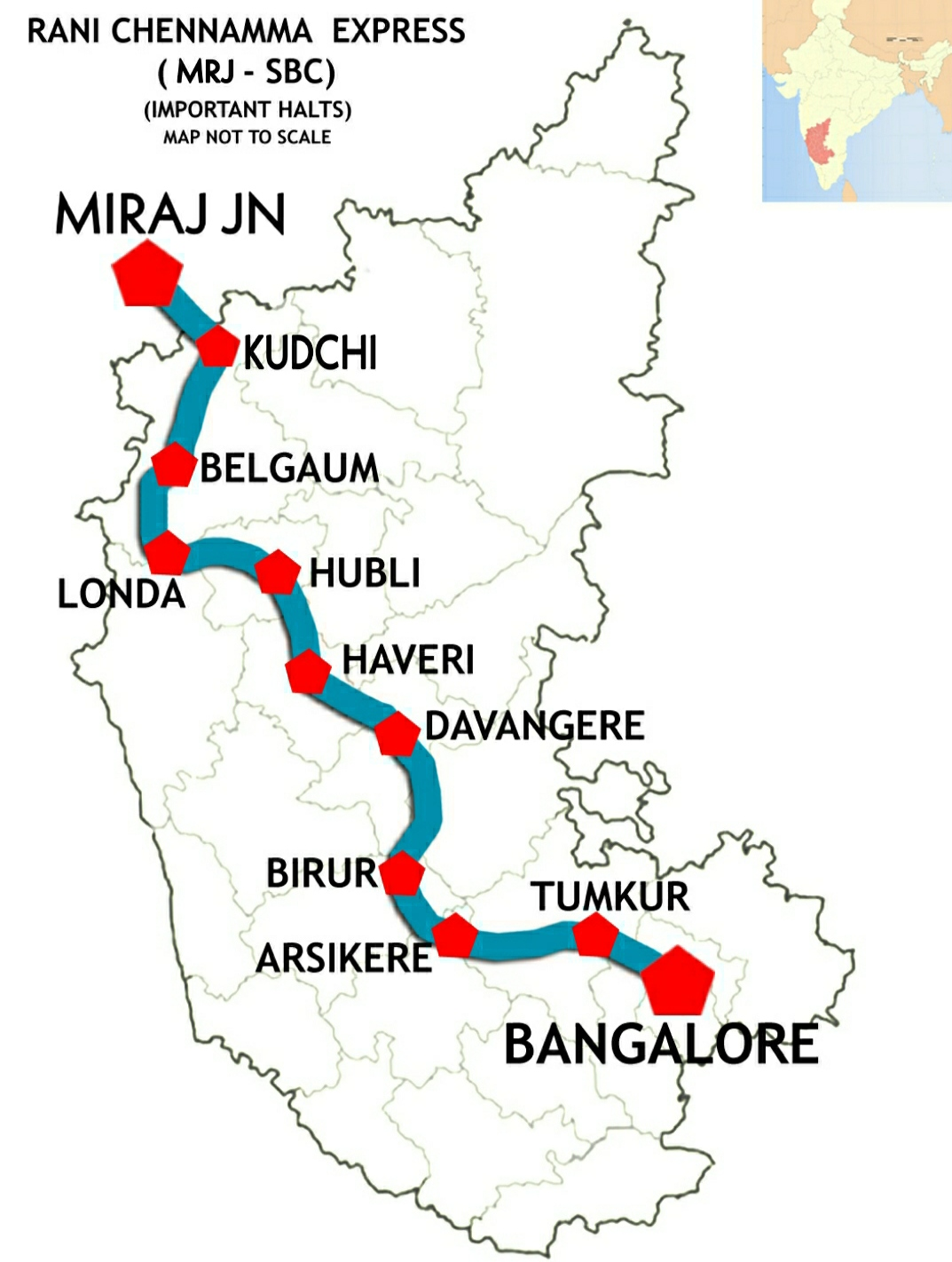 Rani Chennamma Express Route map